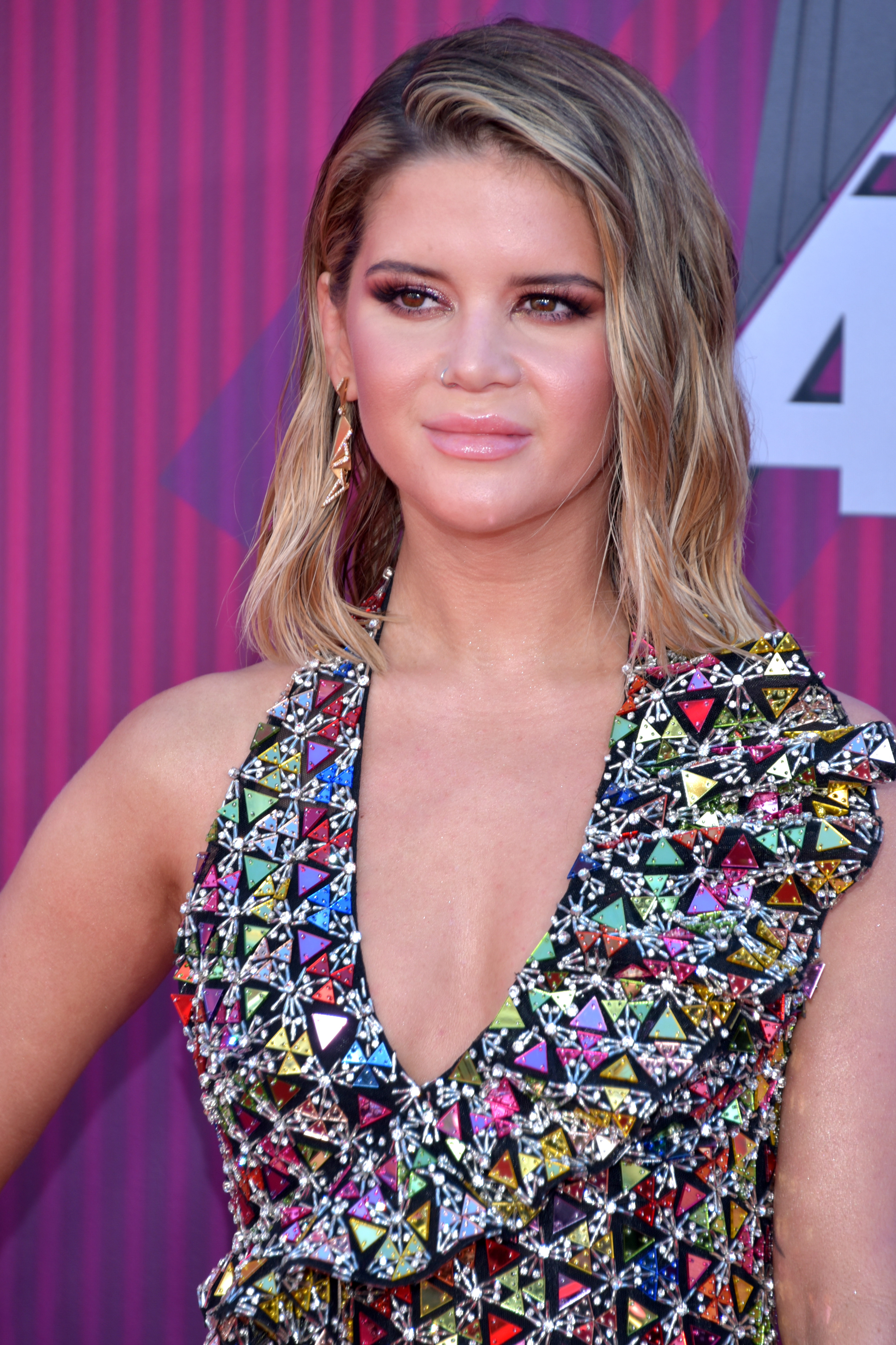 Maren Morris at the 2019 iHeartRadio Music Awards in Los Angeles California on March 14, 2019 - Photo by Glenn Francis of